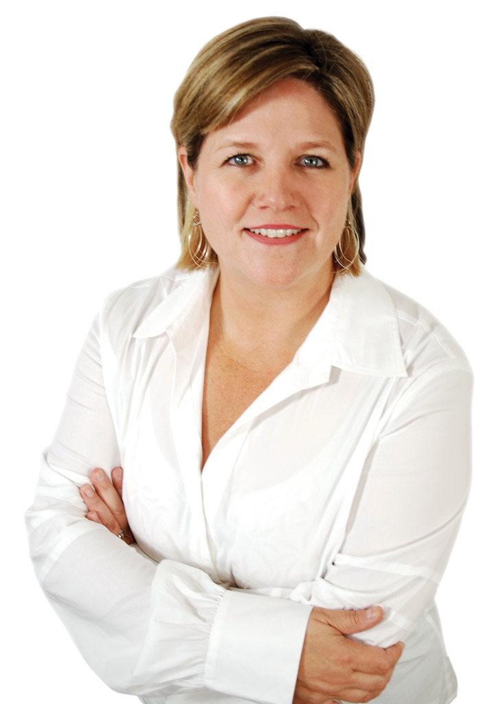 Photo of Andrea Horwath, a politician of the Canadian New Democrats party